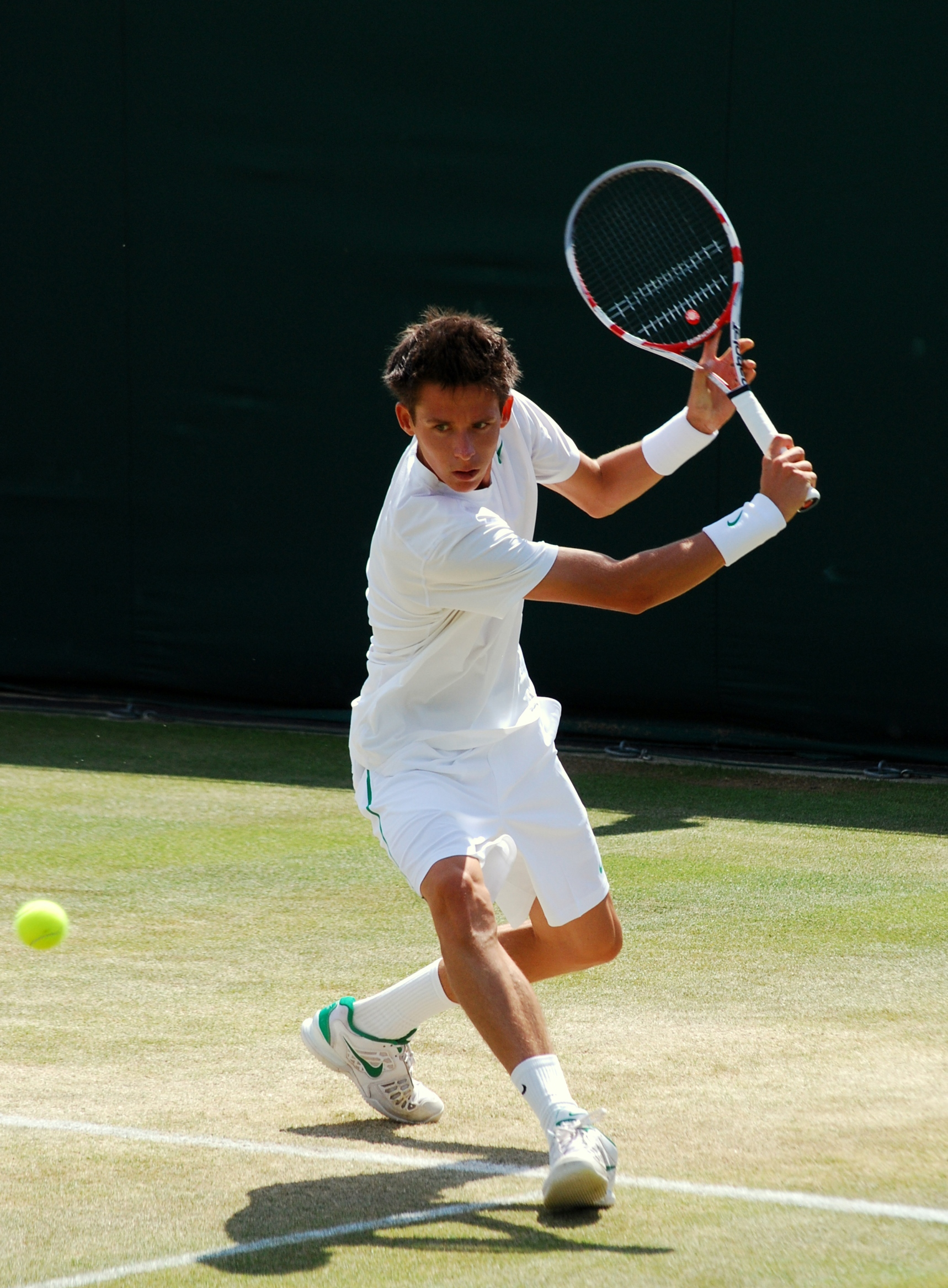 Julien Cagnina during his 3rd round match with Dominic Thiem. Day 9 of Wimbledon 2011.